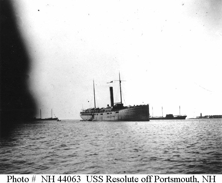 United States Navy steamer USS Resolute off Portsmouth, New Hampshire, possibly while serving as a marker ship for trials of the new battleship USS Kearsarge (BB-5). (The source's suggestion that photo was taken possibly in July 1898 during transportation of Spanish prisoners-of-war captured during the Spanish-American War cannot be true, as the ship did not visit Portsmouth except during the 1899 trials of Kearsarge).